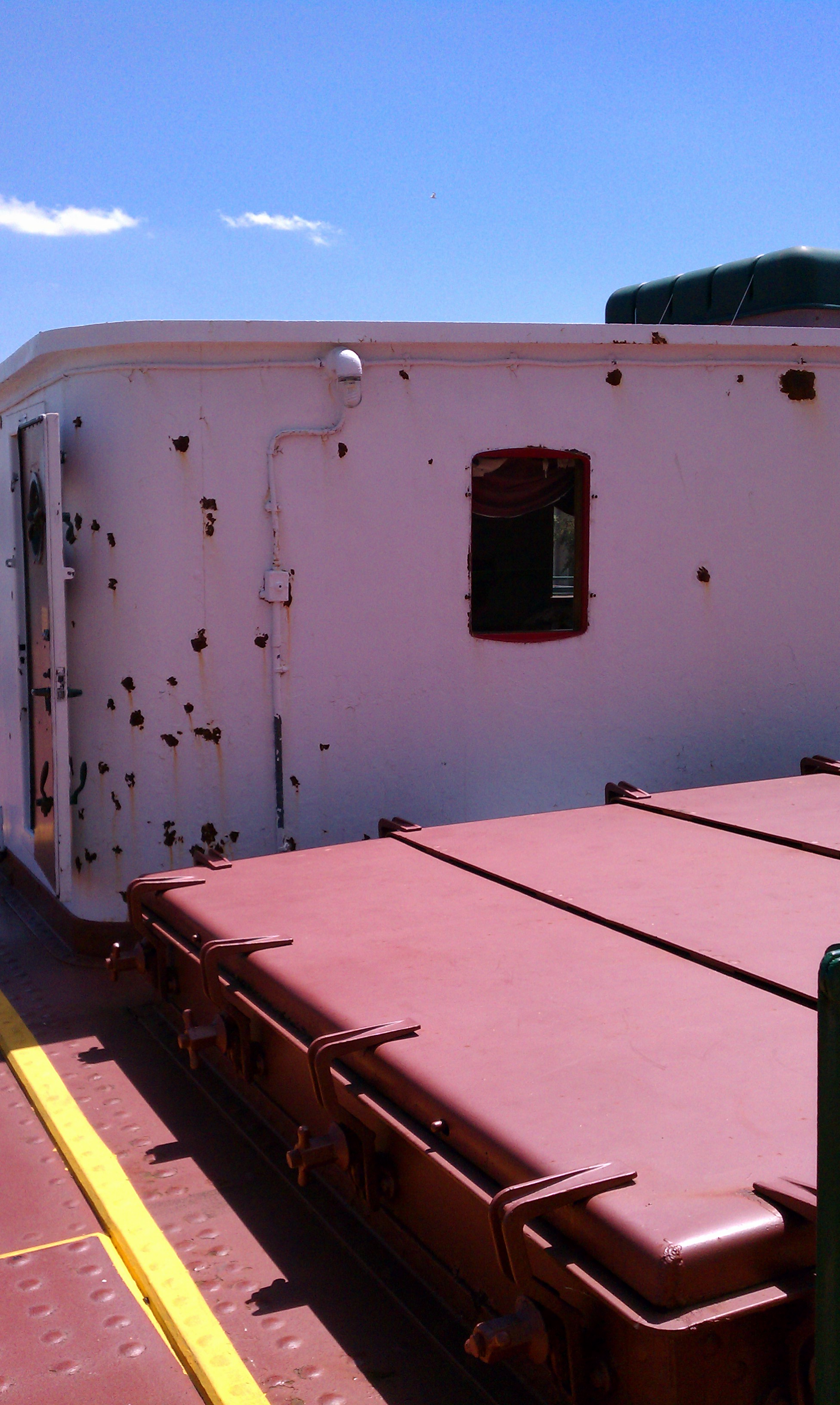 Photo of the guest dining room of the S.S. William A. Irvin from the outside showing where the number 2 hatch would normally be placed on a lake freighter.